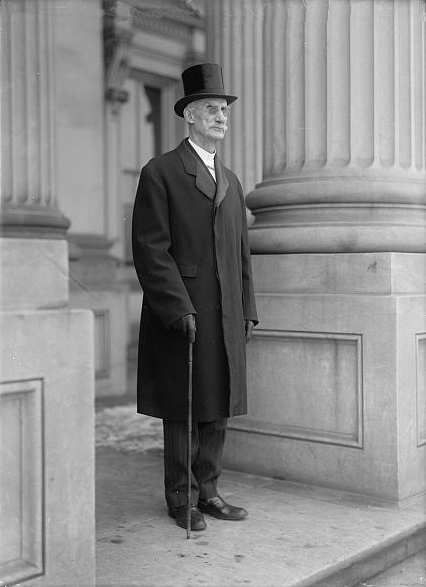 COUDON, REV. HENRY. BLIND CHAPLAIN OF SENATE Digital ID: (digital file from original negative) hec 05413 Reproduction Number: LC-DIG-hec-05413 (digital file from original negative) Repository: Library of Congress Prints and Photographs Division Washington, D.C. 20540 USA